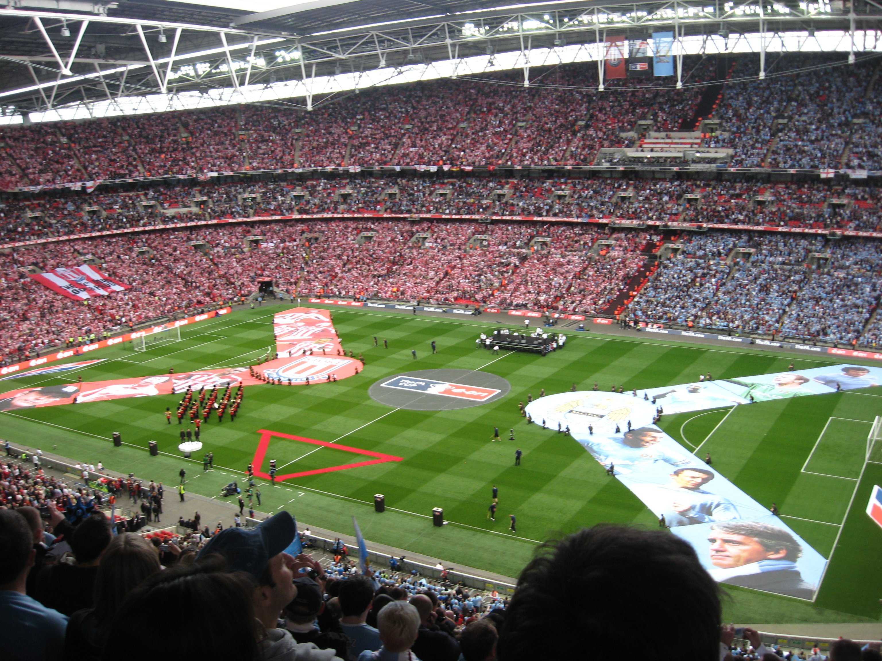 2011 FA Cup Final between Manchester City and Stoke City at Wembley Stadium. The traditional rendition of "Abide With Me" takes place before the match.